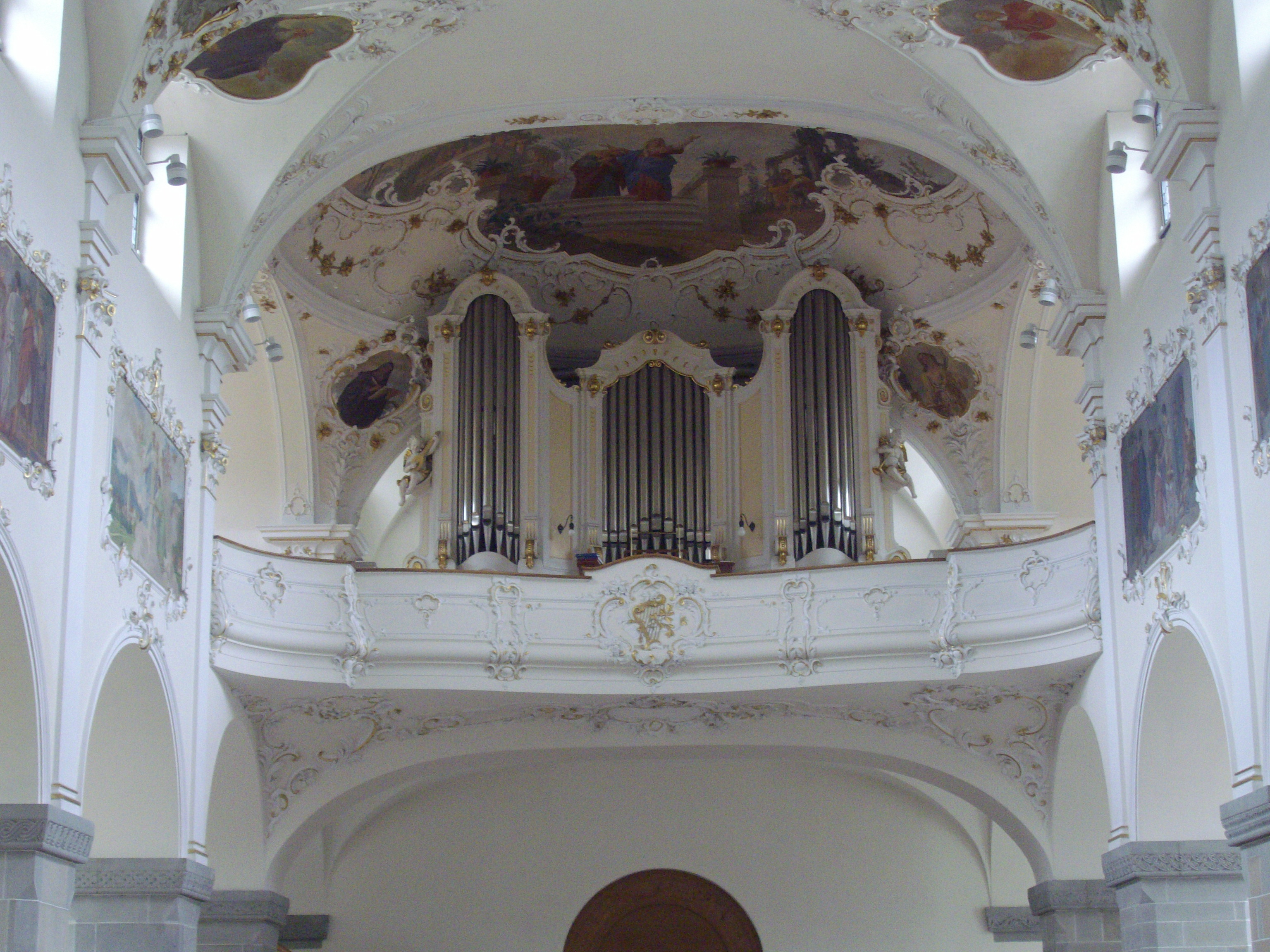 Orgelempore der Klosterkirche Schänis